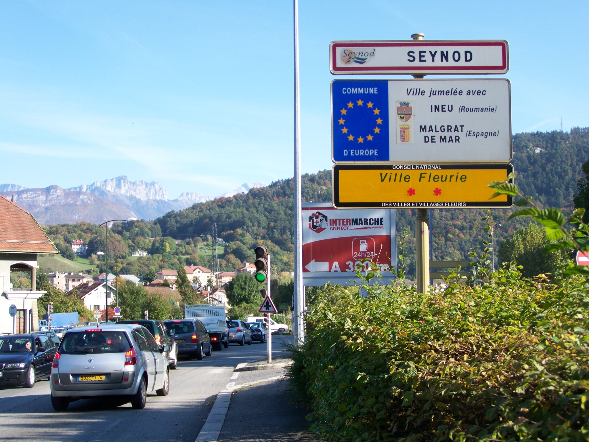 Sign welcoming visitors to the French commune of Seynod near Annecy in Haute-Savoie.